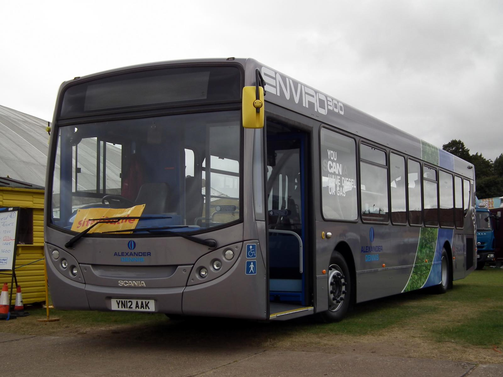 Demonstrator bus (YN12 AAK), an Alexander Dennis Enviro300, seen at Showbus 2012.